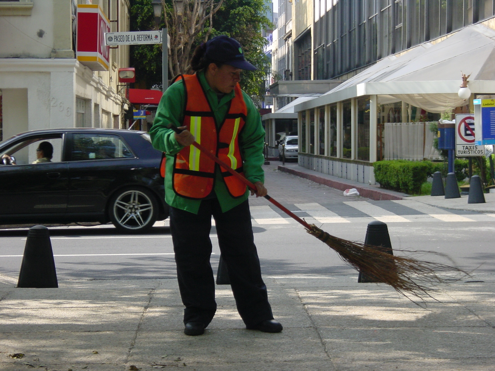 Sinder worker at Paseo de La Reforma, Mexico City